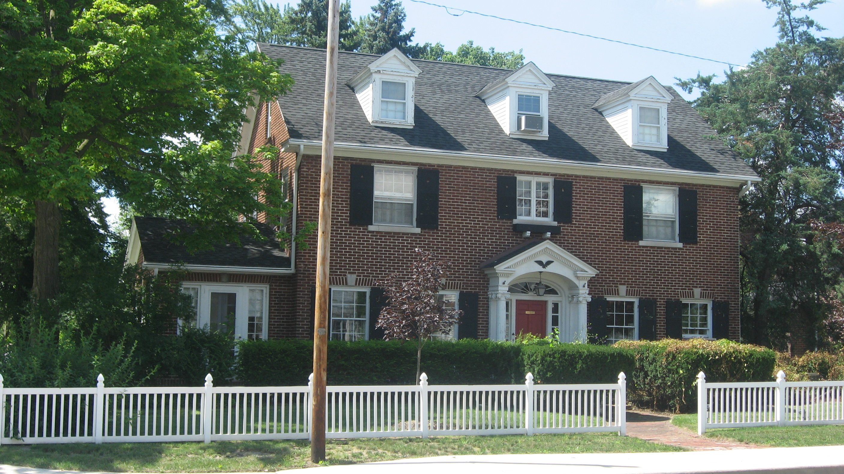 Front of the Arthur Miller House, located at 253 E. Market Street (U.S. Route 6) in Nappanee, Indiana, United States. Built in 1922, it is listed on the National Register of Historic Places.